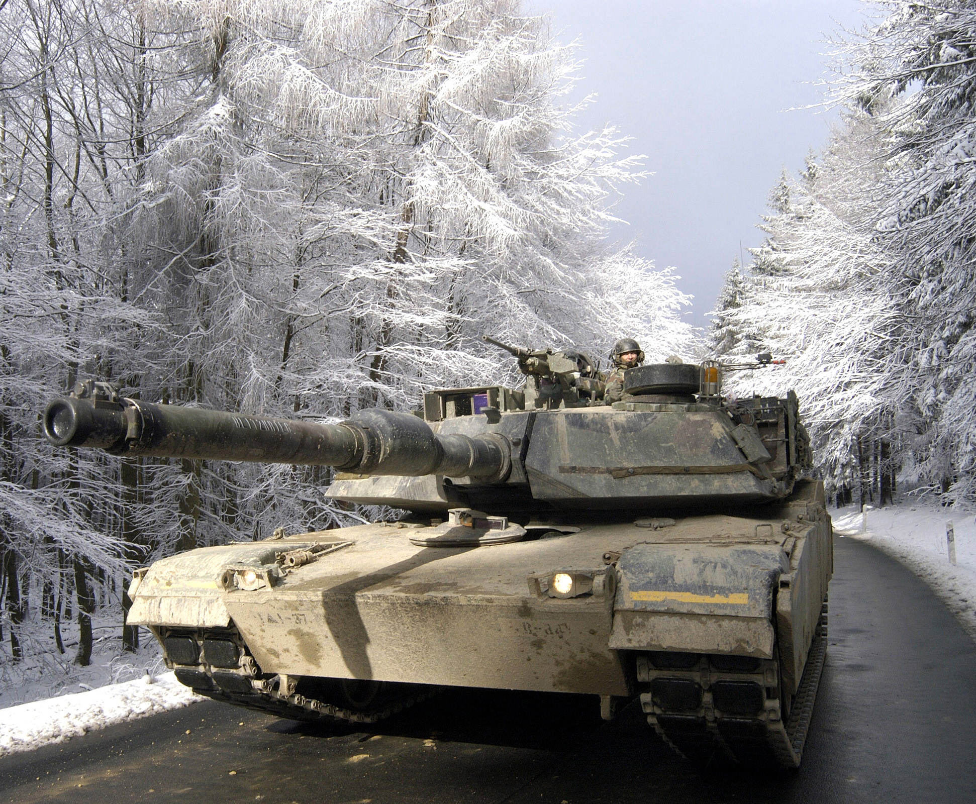 Soldiers from the 1st Armored Division drive their M1A1 Abrams tank through the Taunus Mountains north of Frankfurt, Germany, during Exercise Ready Crucible.